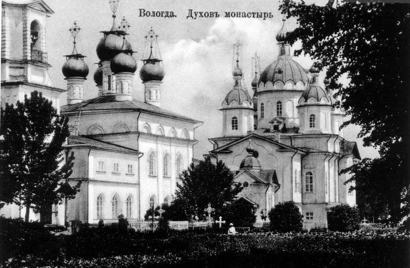 St. Spirit Monastery in Vologda